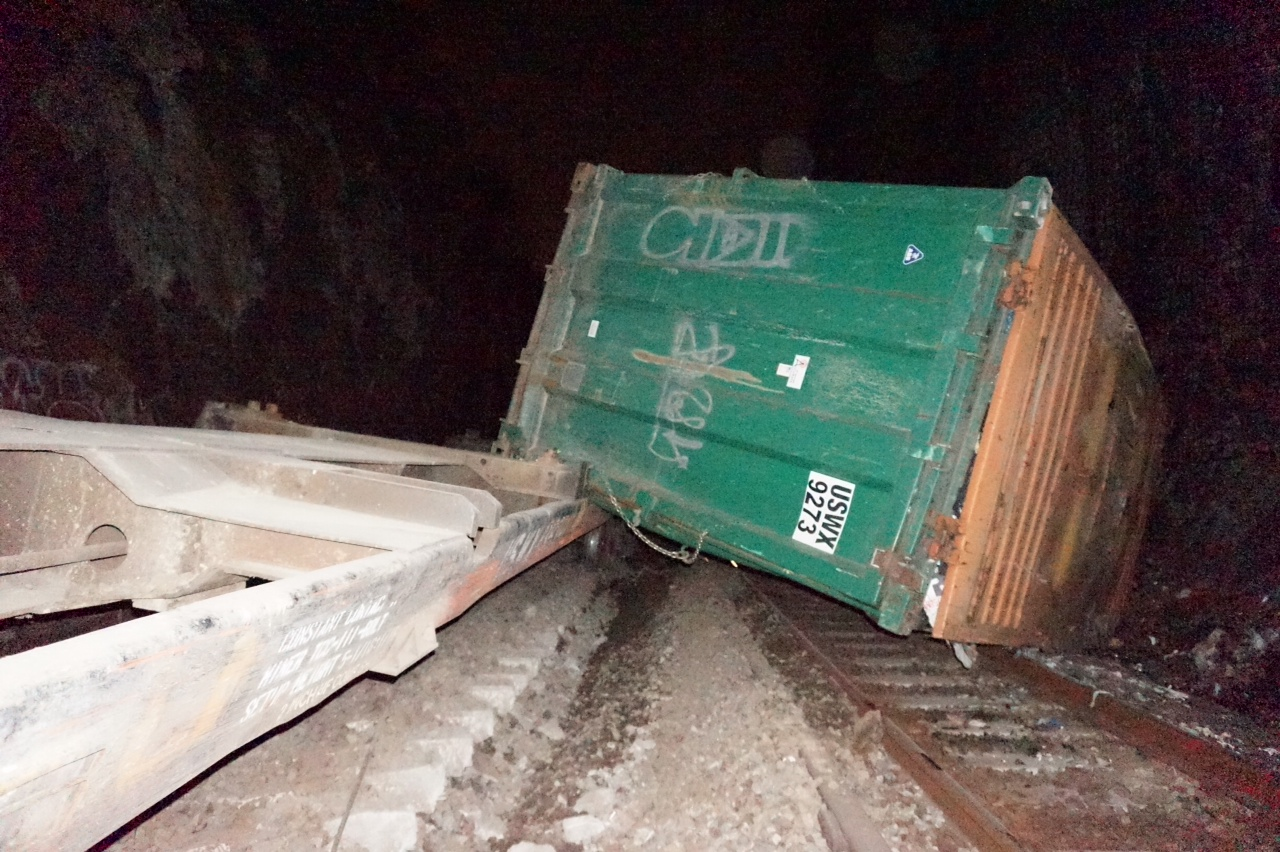 Ten cars of a freight train hauling garbage derailed on Metro-North Railroad's Hudson Line in the Bronx on Thursday, July 18, 2013. MTA Photo by Joseph P. Chan.